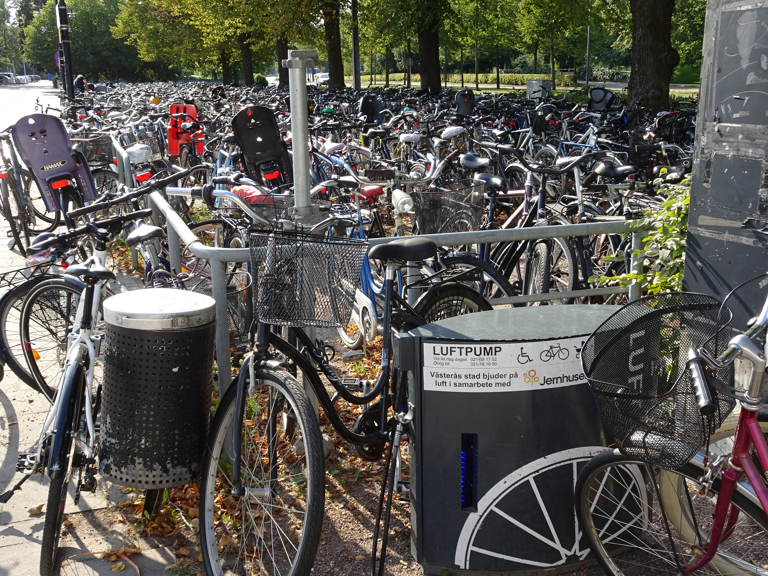 Bicycle parking with airpump at travel center in Västerås, Sweden